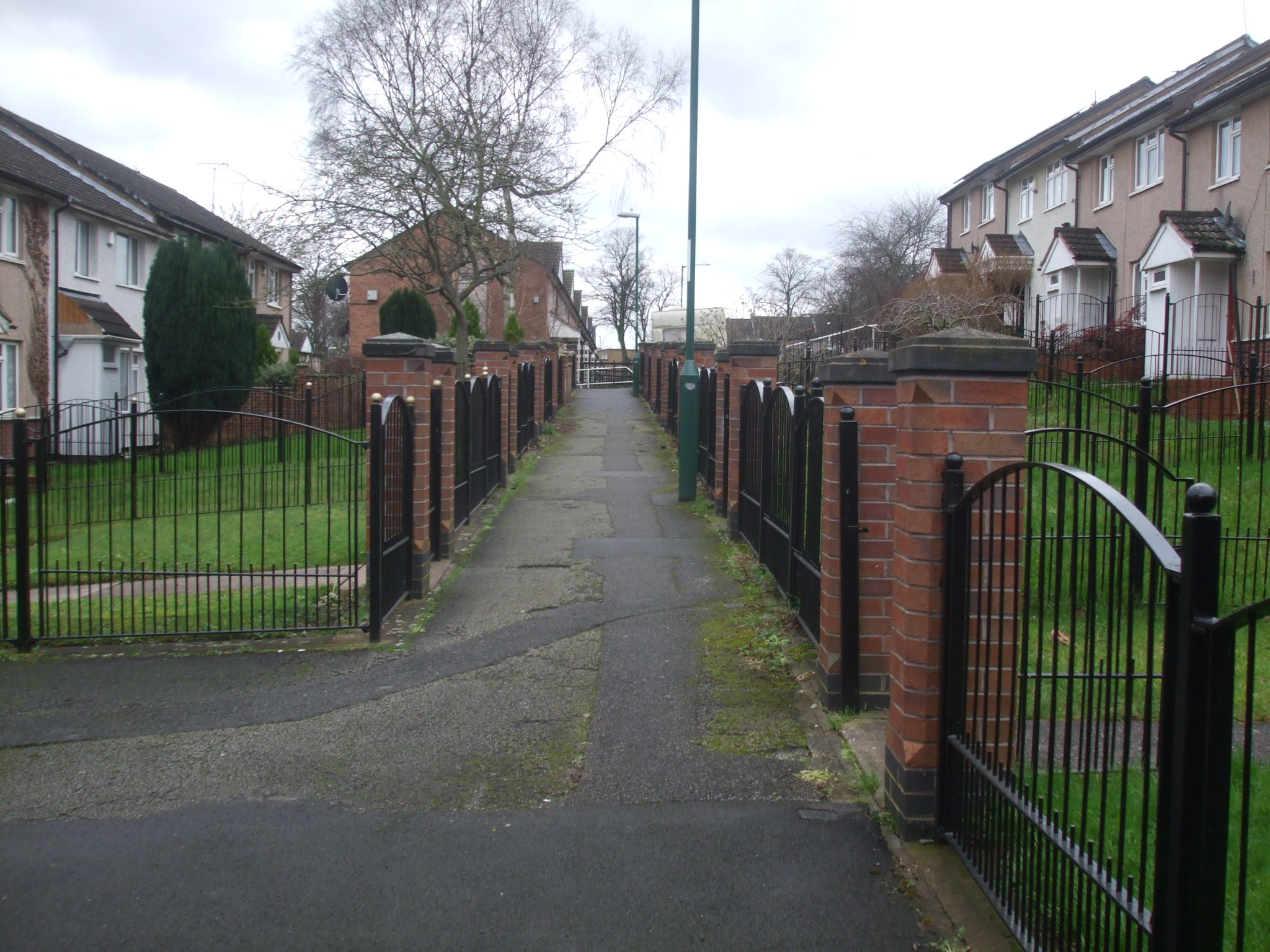 St Ann's is a council ward in Nottingham. It hosts a large council estate. Hungerhill Road at this point backs on to Tulip Avenue, and the paths lead to Robin Hood Chase.